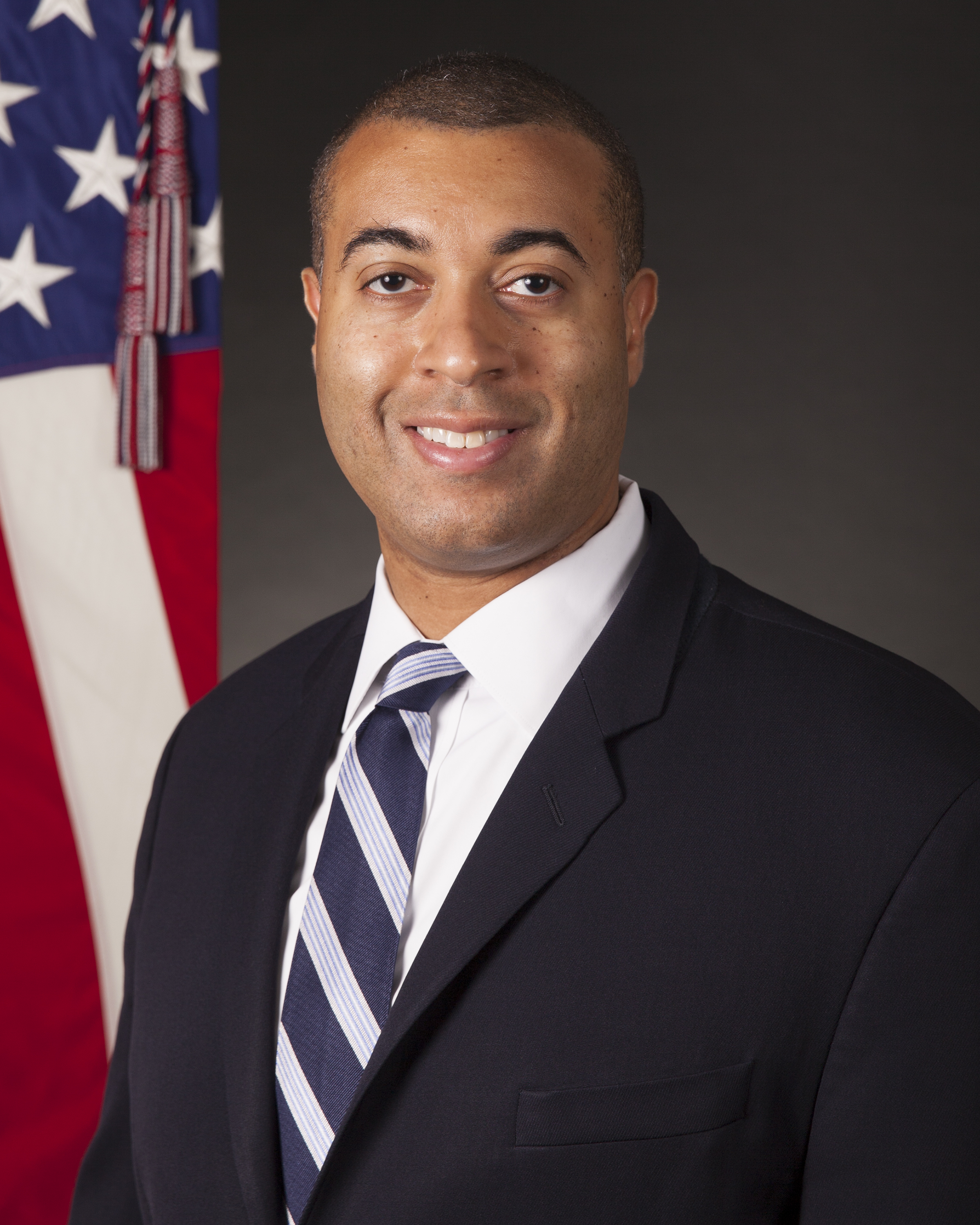 Franklin R. Parker, assistant secretary of the Navy (Manpower and Reserve Affairs)